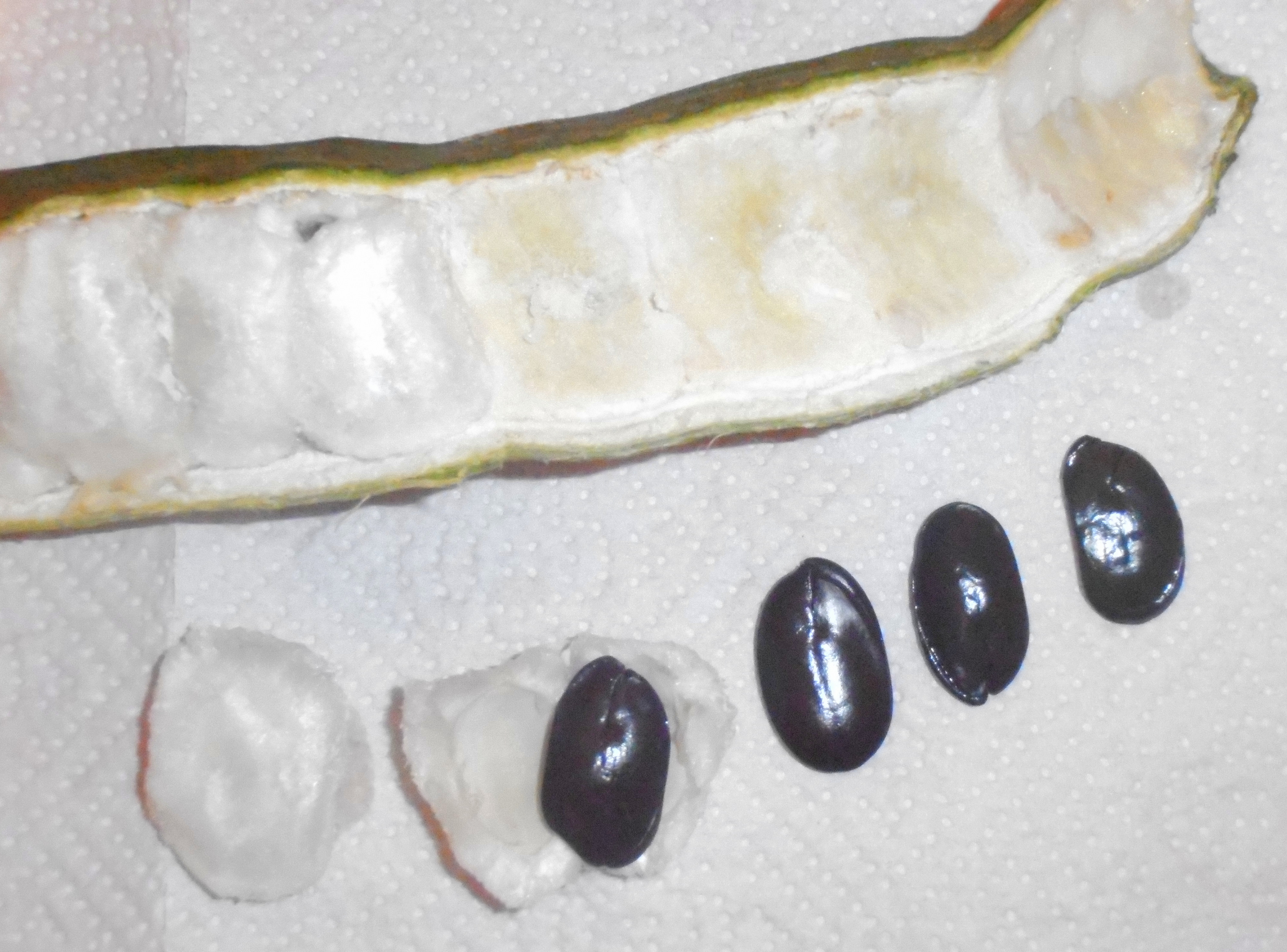 Seeds, aril (edible) and portion of Inga feuilleei pod